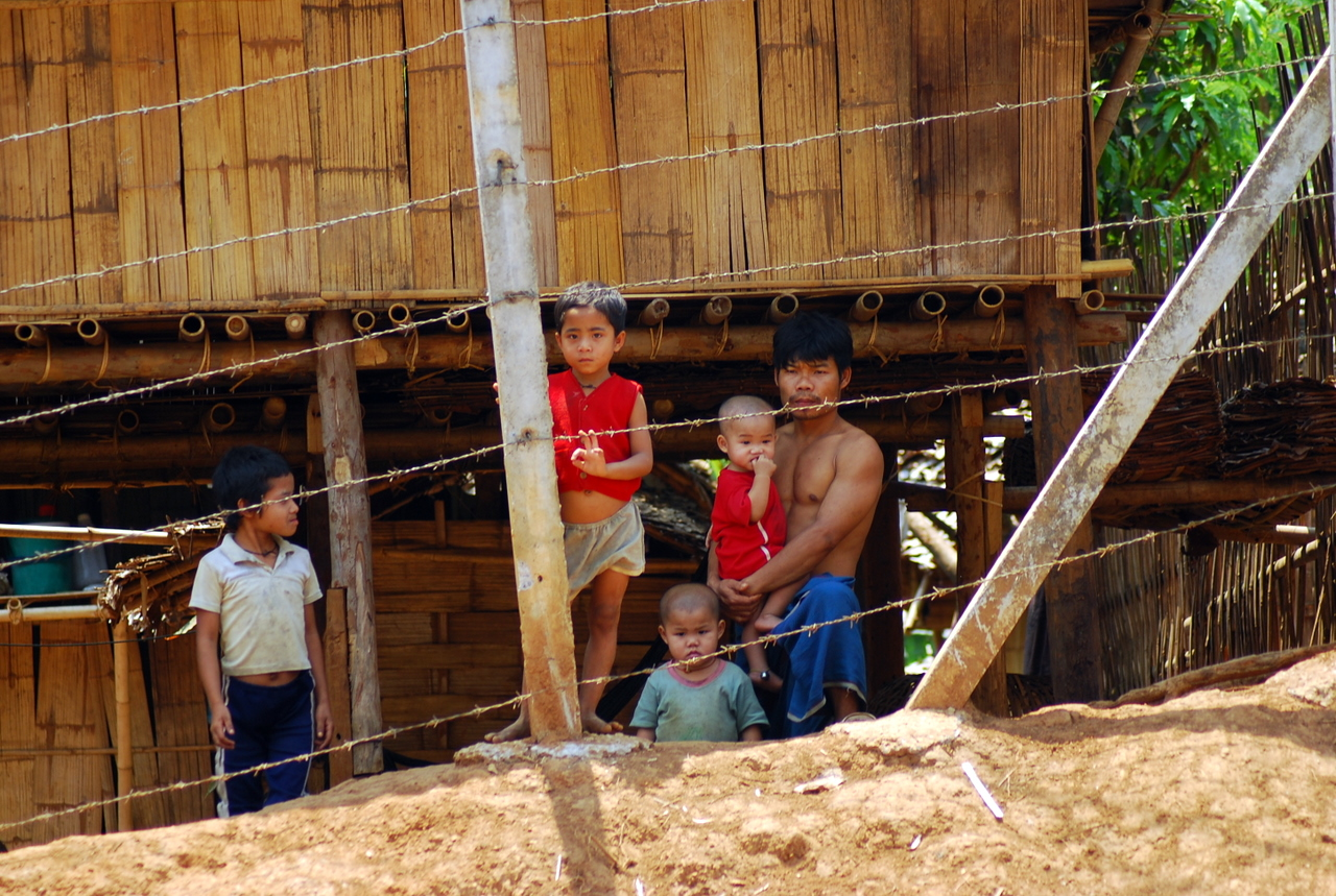 Mae La refugee camp in Thailand, home to around 50,000 refugees from Myanmar/Burma. Crossing the fence is illegal.